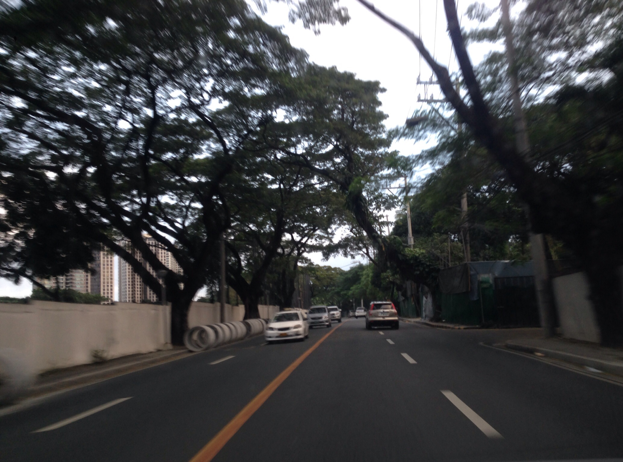 McKinley Road looking toward Fifth Avenue, Forbes Park, Makati, Manila